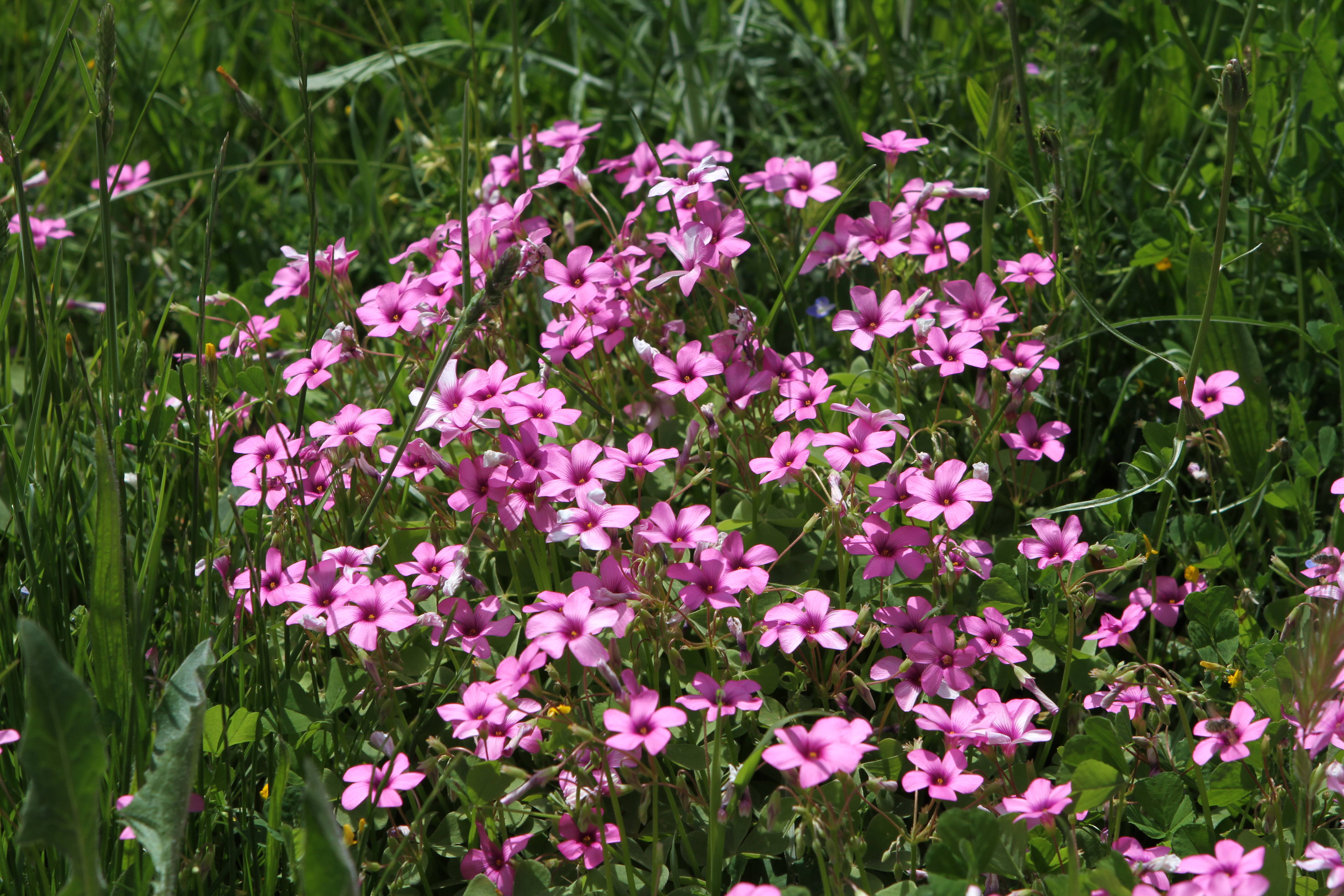 Flowers at the Montagne Sainte-Victoire (Bouches-du-Rhône, France)